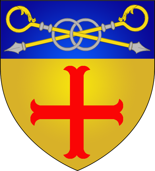 Coat of arms of the municipality of Biwer, Luxembourg